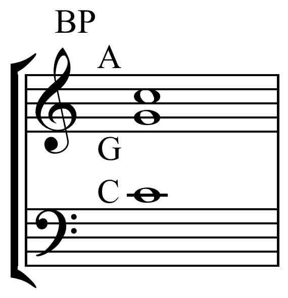 Chord from just Bohlen–Pierce scale: C-G-A, tuned to harmonics 3, 5, and 7. "BP" above the clefs indicates Bohlen–Pierce notation. Created by Hyacinth (talk) using Sibelius 5.